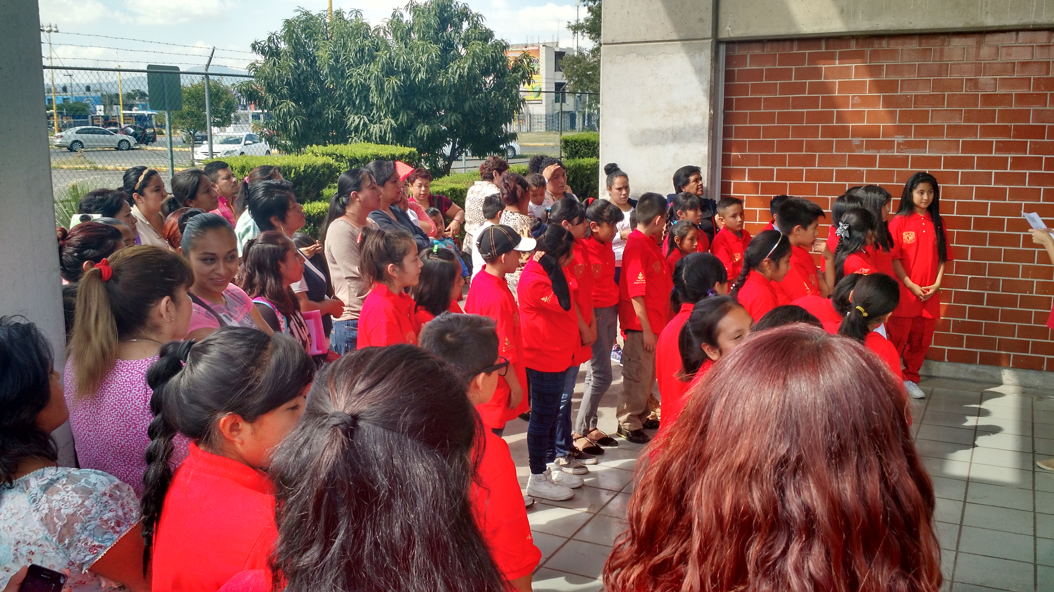 Programa PERAJ en la Facultad de Estudios Superiores (FES) Aragón de la UNAM.